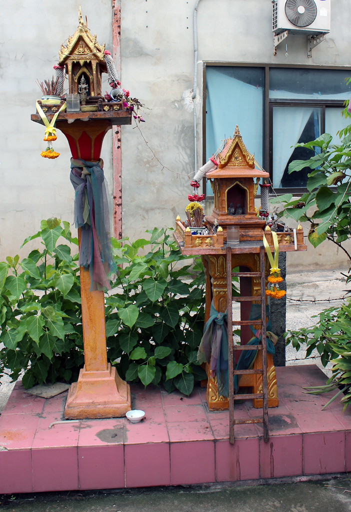 Typical plain Thai Spirit Houses, for "Lord of the House" and "Lord of the Land". (Bo Phut, Koh Samui, 2016)